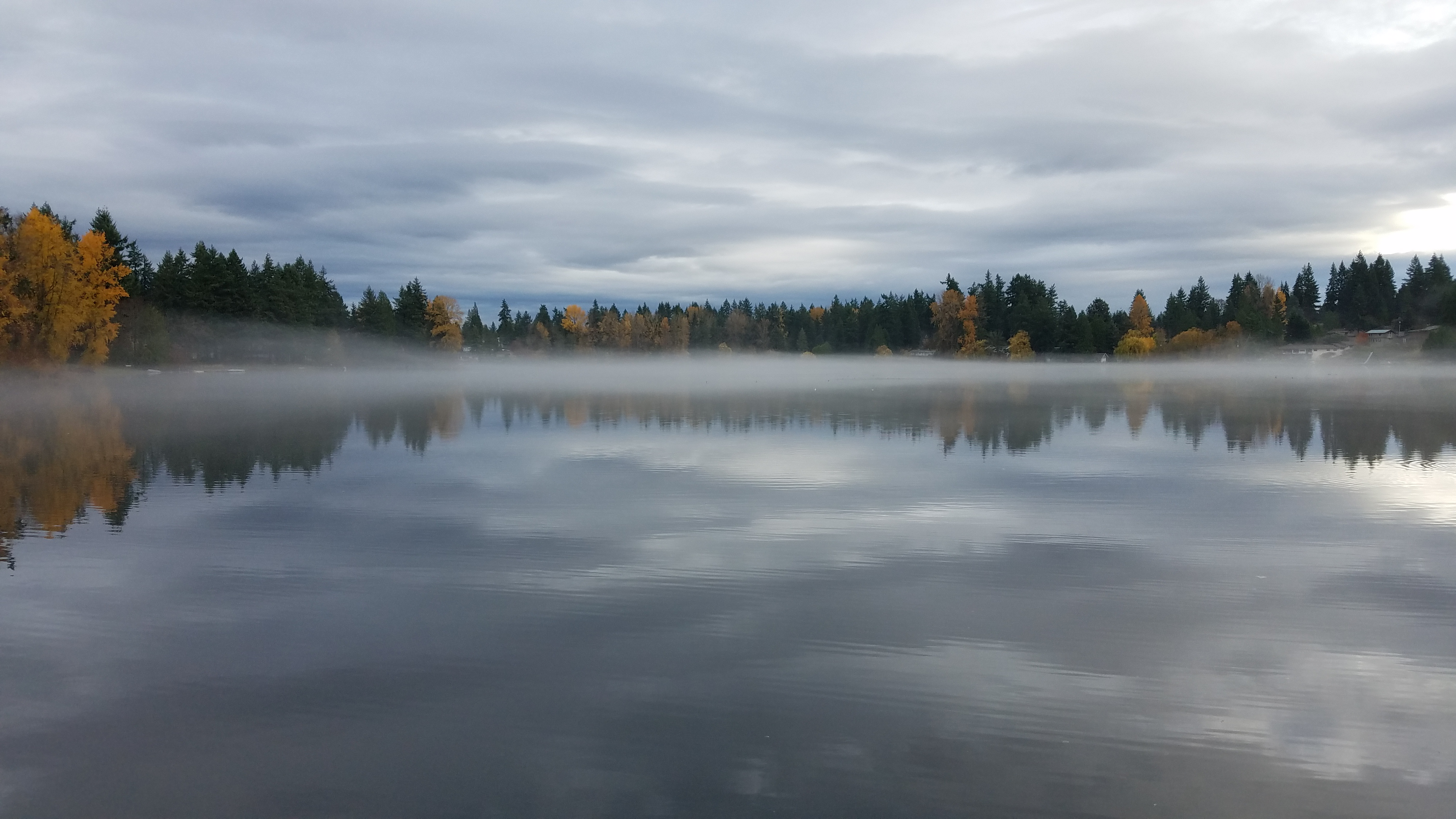 Phantom Lake looking east from the viewing platform at Phantom Lake Park